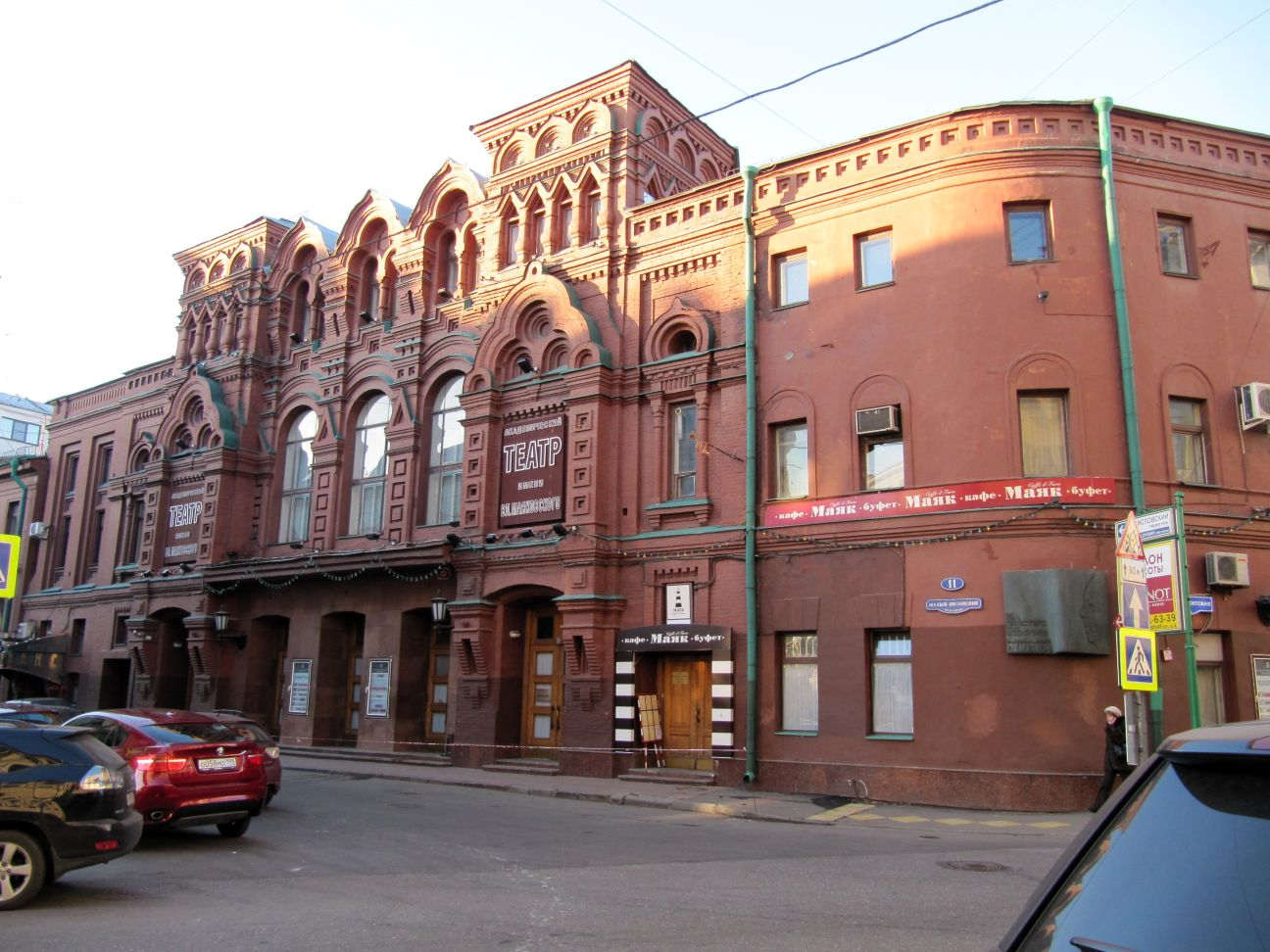 Mayakovsky Theater building was built in 1886 by architect C. Terskiy (author of the facade - F. Schechtel). Moscow, B.Nikitskaya str., 19/13